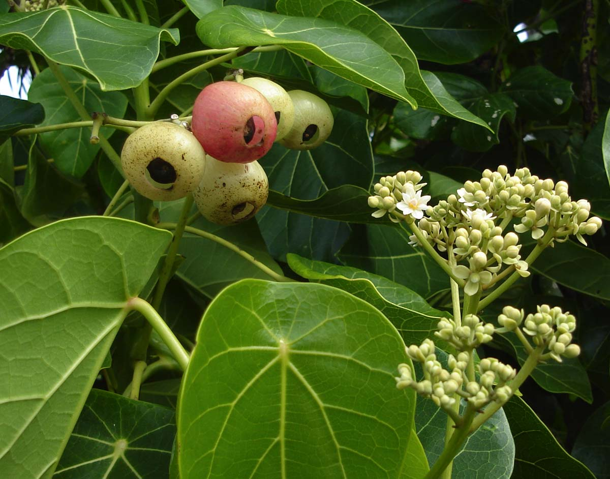 Hernandia nymphaeifolia, Chineze lantern tree, (fotulona) on Tongan beach